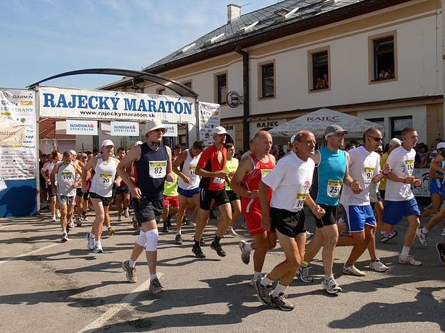 Rajec maraton